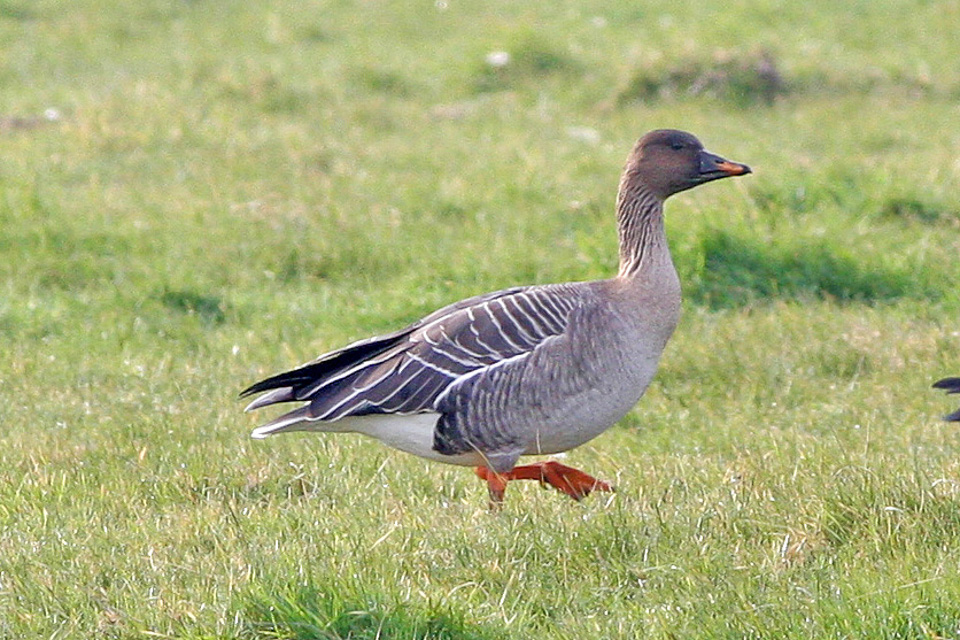 Tundra Bean Goose Anser serrirostris rossicus at Piddinghoe, East Sussex, England.